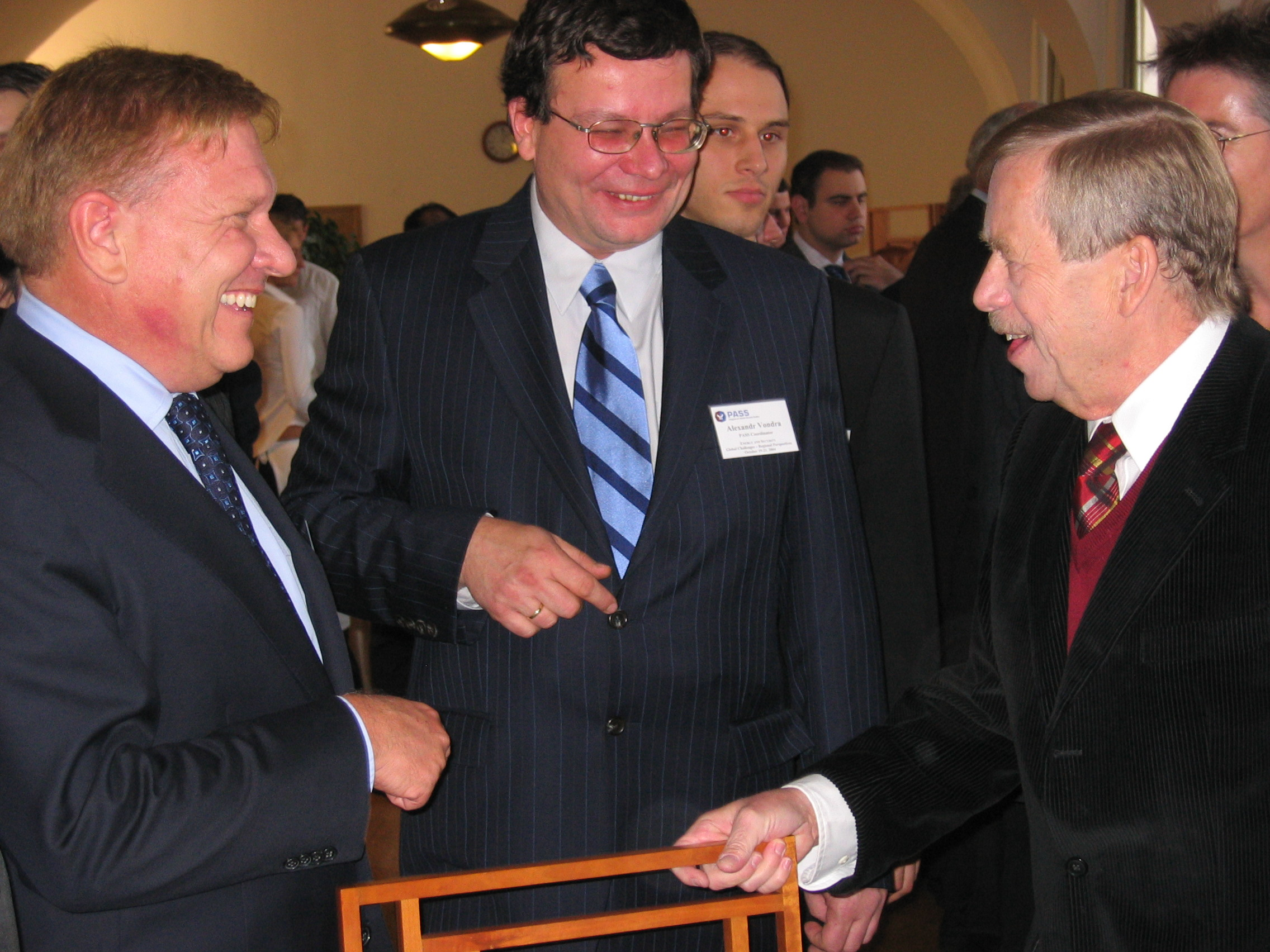 President Vaclav Havel and Martin, Czech Republic, 2004